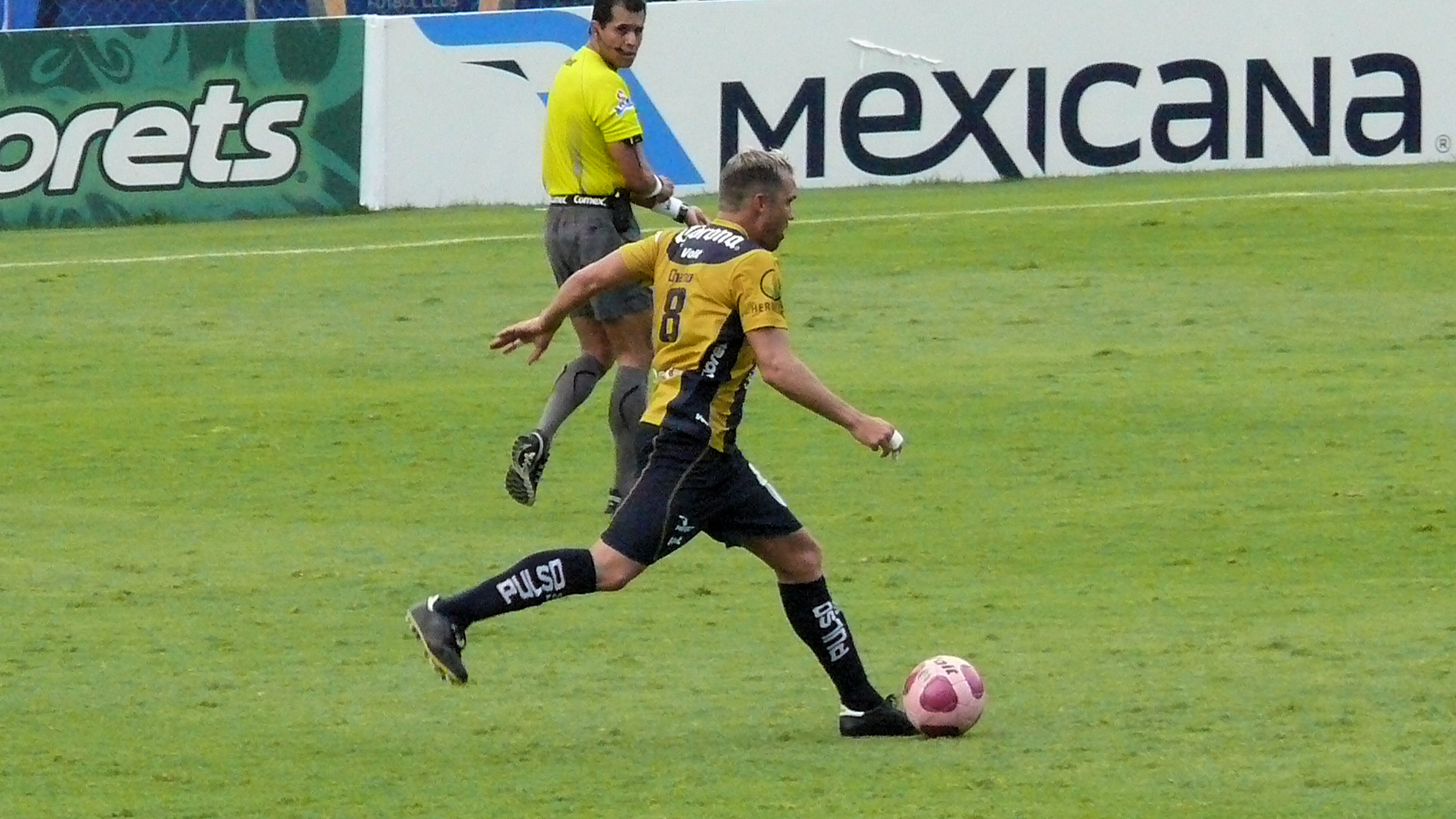 Chacho Coudet.